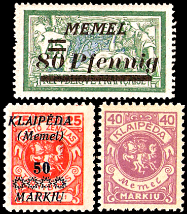 Postage stamps for use in the Klaipeda (Memel) Region 1920-1925